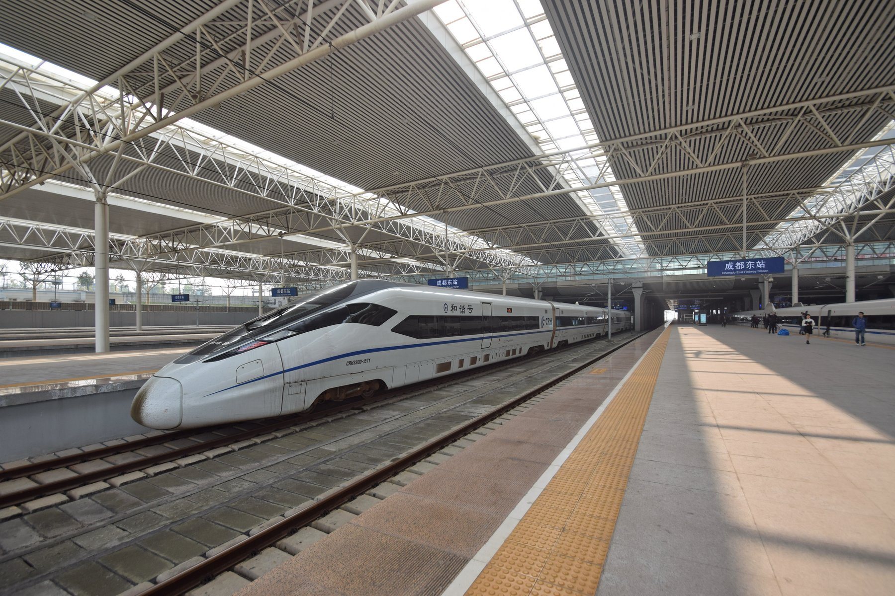 Xi'an-Chengdu-Guiyang High-speed Railway CRH380D-1571-1579 EMU at Chengdu Dong (East) Railway Station